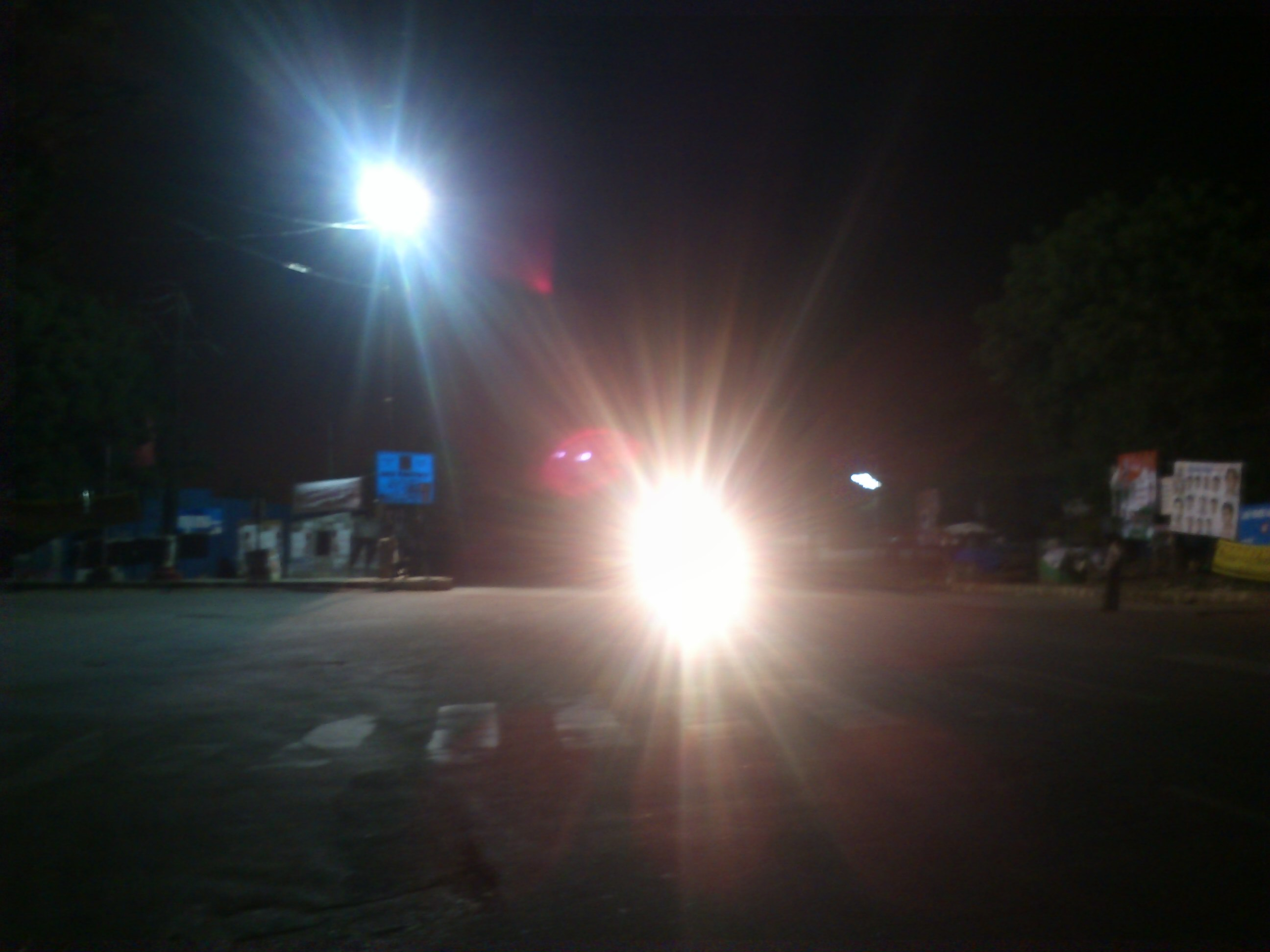 Night View of Bahadurpally 'X' Road